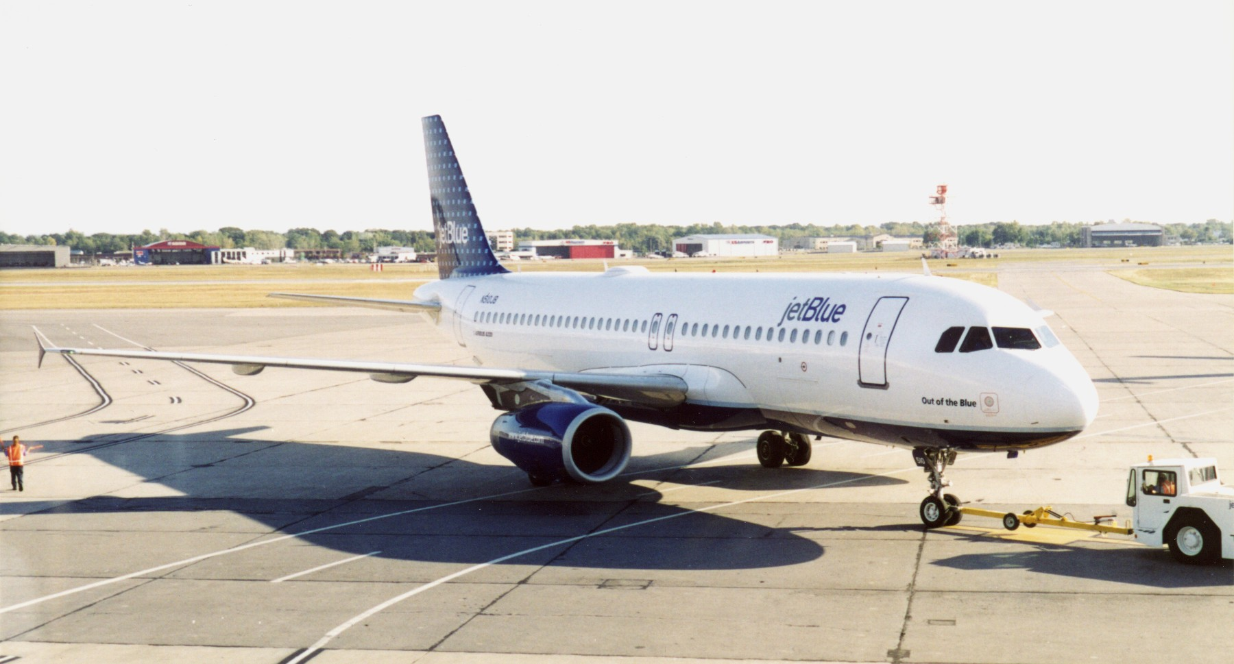 JetBlue Airways Airbus A320 at Greater Rochester, NY International Airport in September 2002.